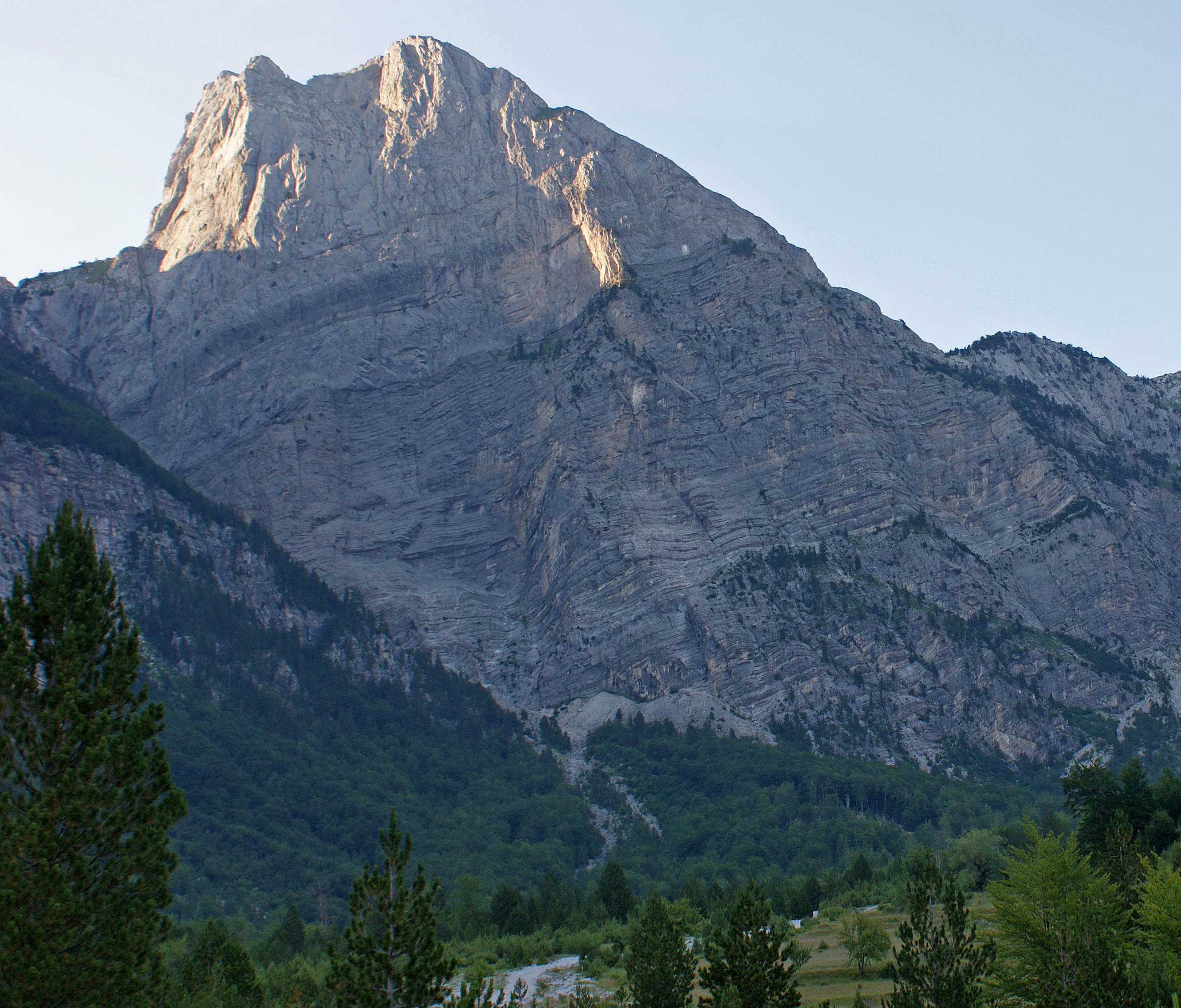 Maja e Arapit, 2217 m, Theth, Albanian Alps, Albania